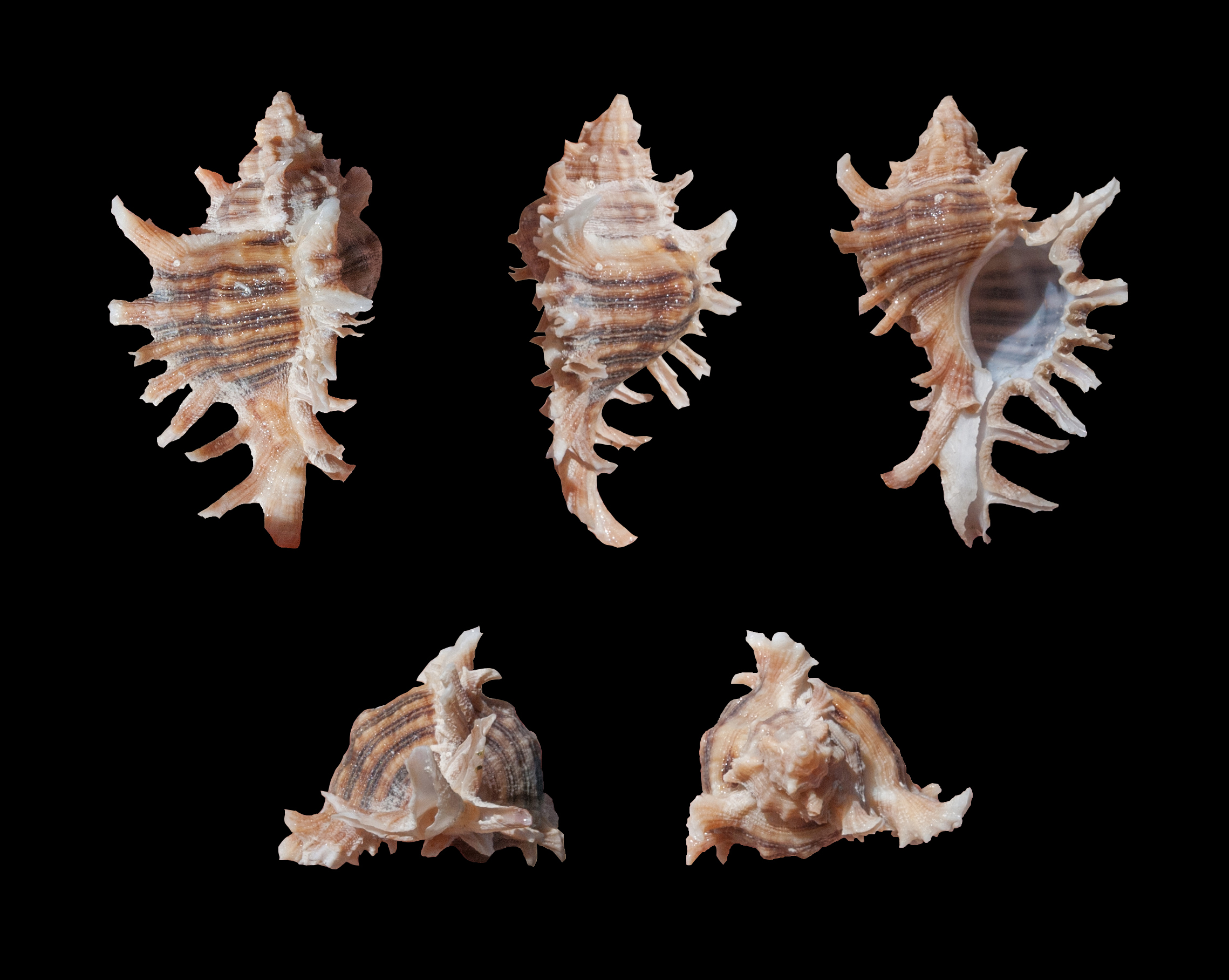 Chicoreus brevifrons from Margarita Island